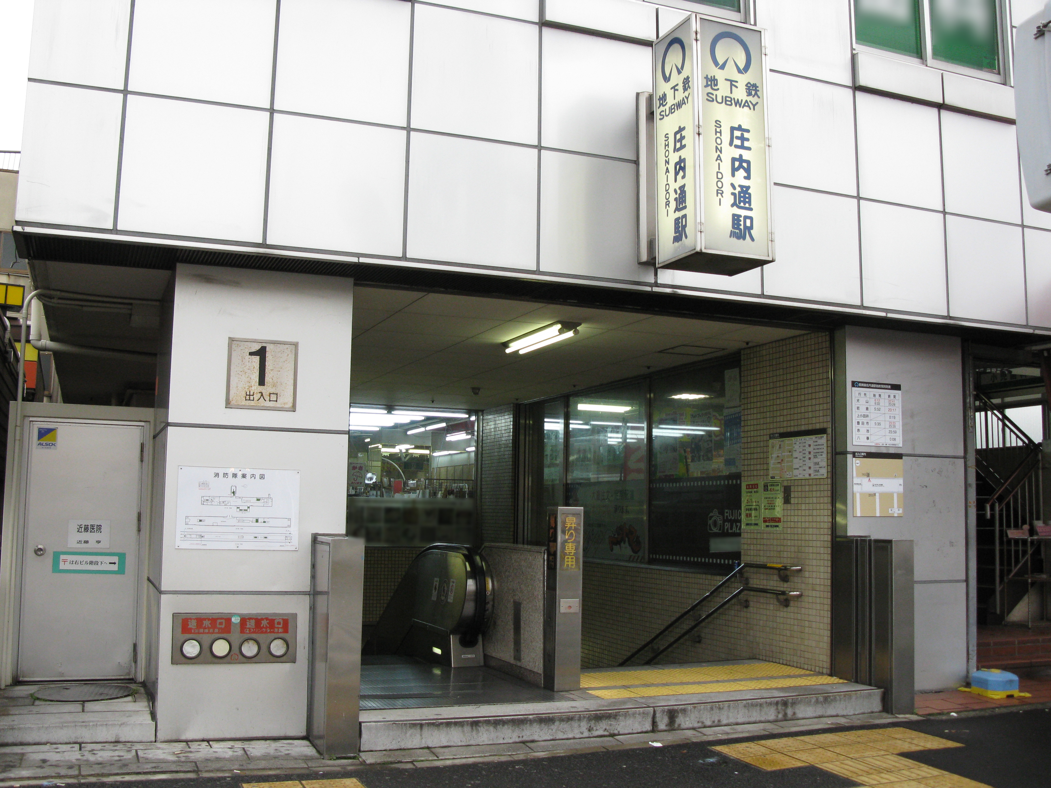 Shōnai-dōri Station no.1 entrance (Nagoya Municipal Subway Tsurumai Line)